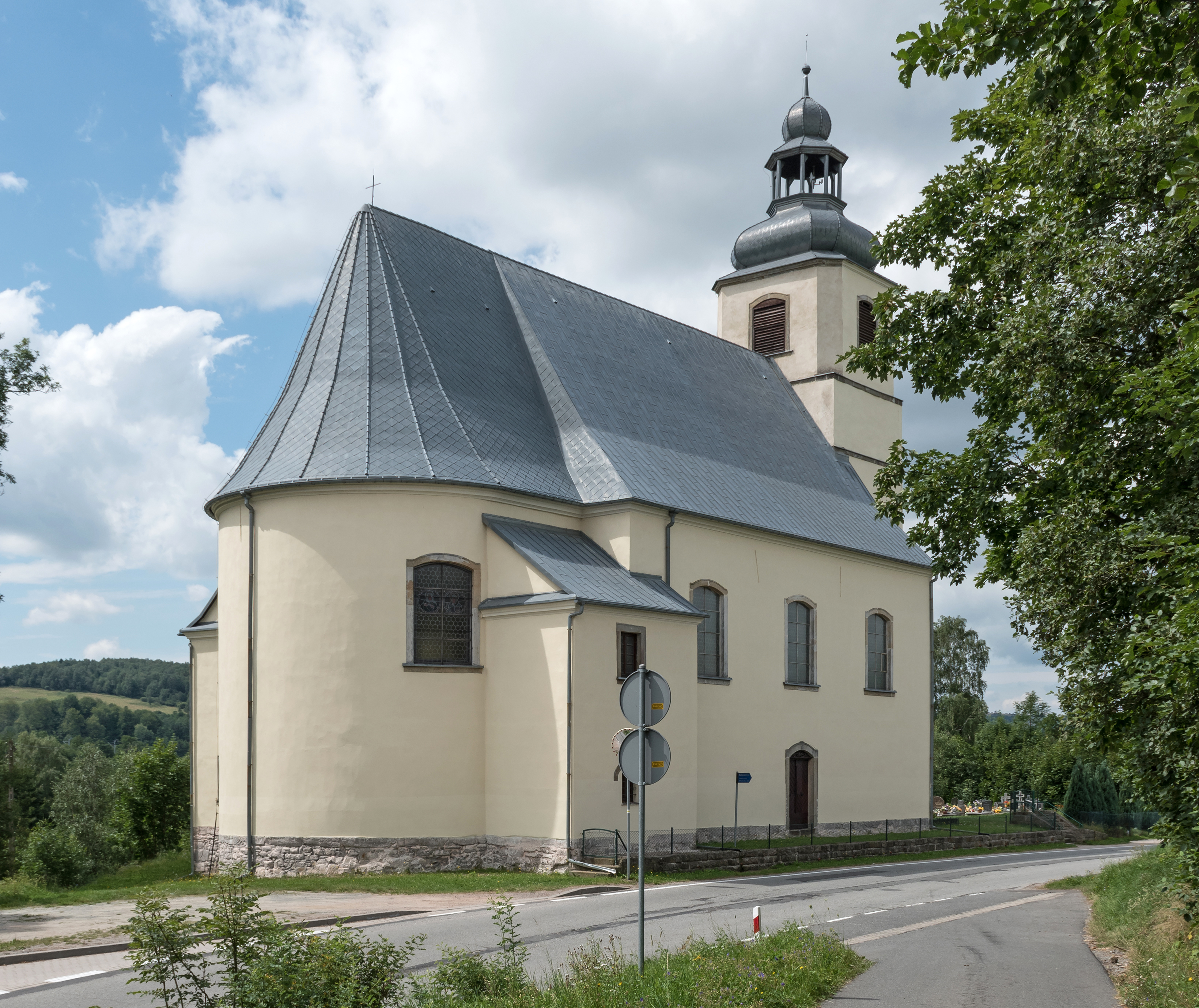 Saint Anne church in Boboszów Wikidata has entry Q30048709 with data related to this item.